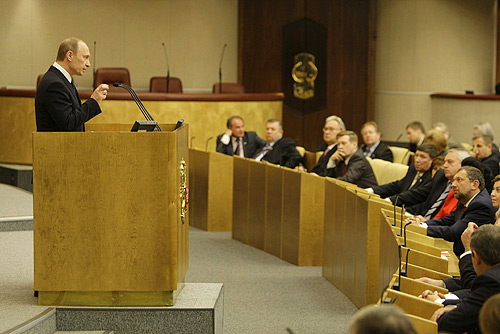 MOSCOW. At a meeting of the State Duma.